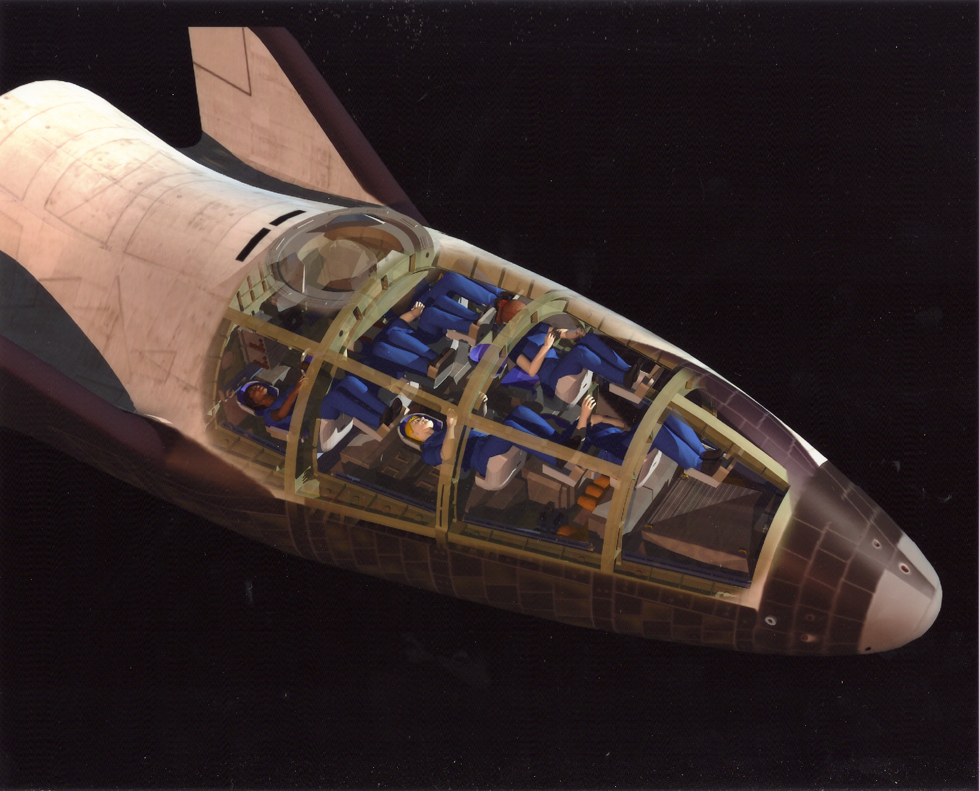 Rendering of an X-38 Crew Rescue Vehicle with crew configuration shown.